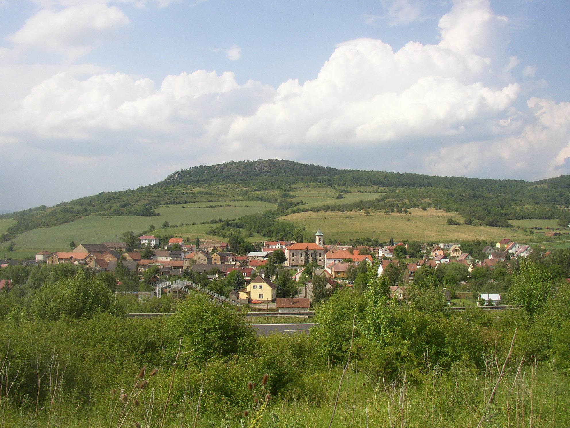 Village of Želenice (Most District), Czech Republic, as seen from south.